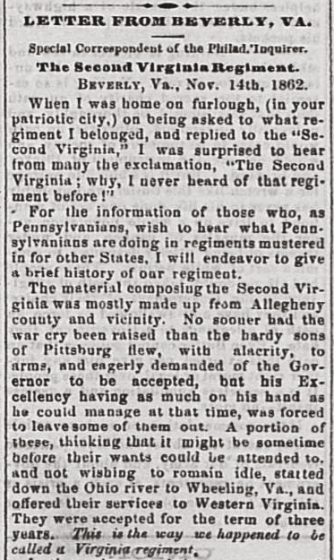 Article in the Wheeling Daily Intelligencer describing how a regiment of mostly Pennsylvania soldiers came to be called the 2nd [West] Virginia Infantry, U.S.